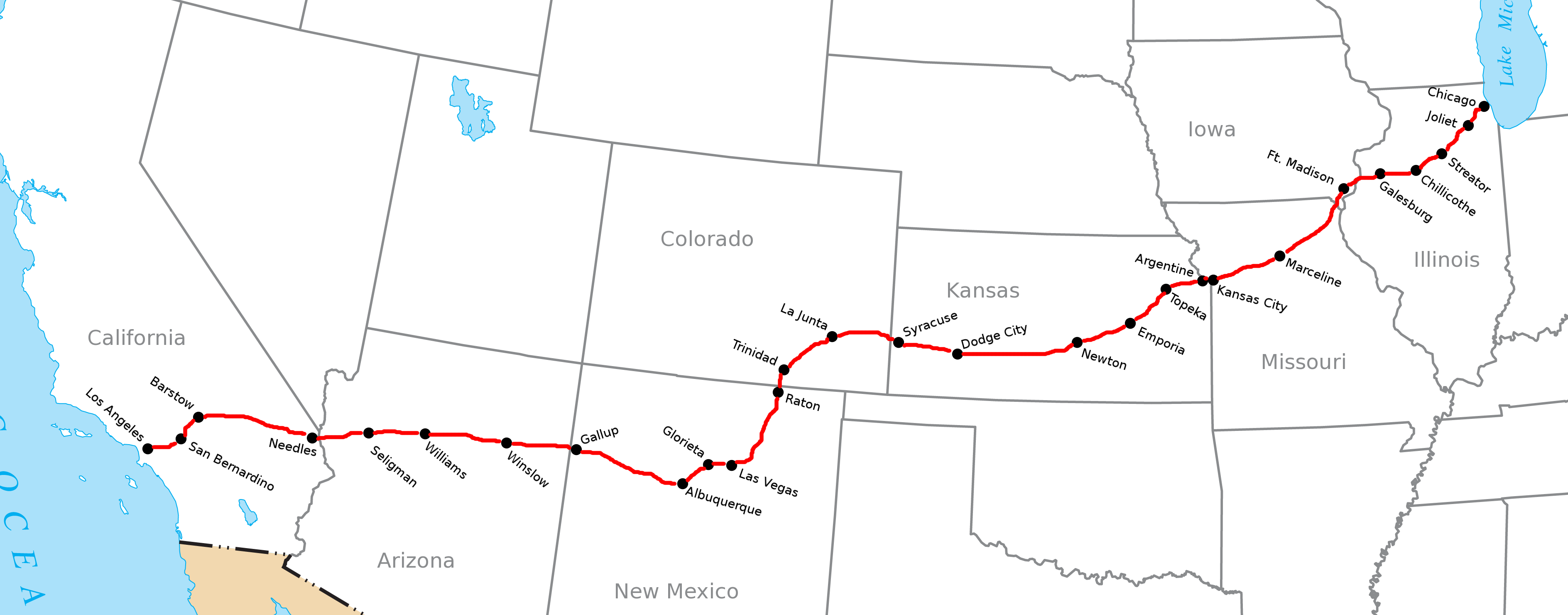 Route of the Scott Special passenger train operated by Atchison, Topeka and Santa Fe Railway in 1905. State outlines from Image:US state outline map.png, state and city names, city dots and Scott Special route added by Sean Lamb (User:Slambo) using the GIMP's text and paint drawing tools.